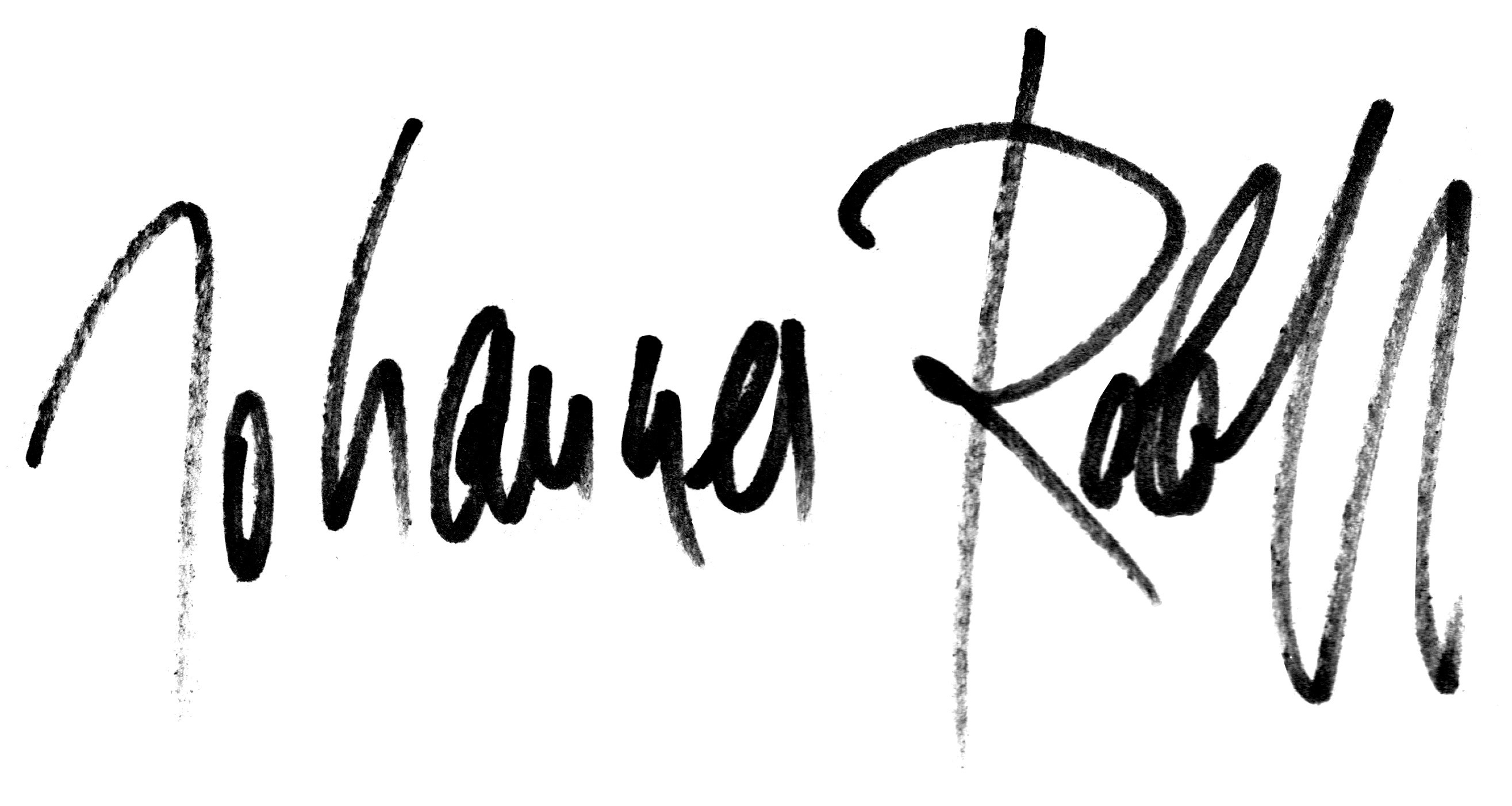 Sign of pianist Johannes Roloff